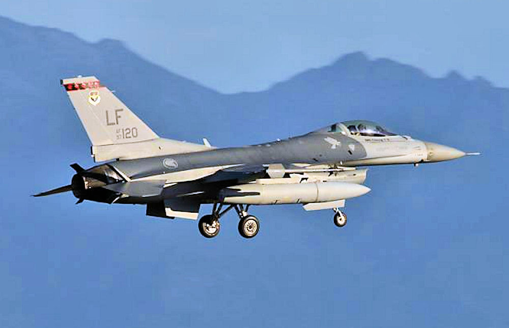 425th Fighter Squadron - Lockheed Martin F-16CJ Block 52 Fighting Falcon 97-120